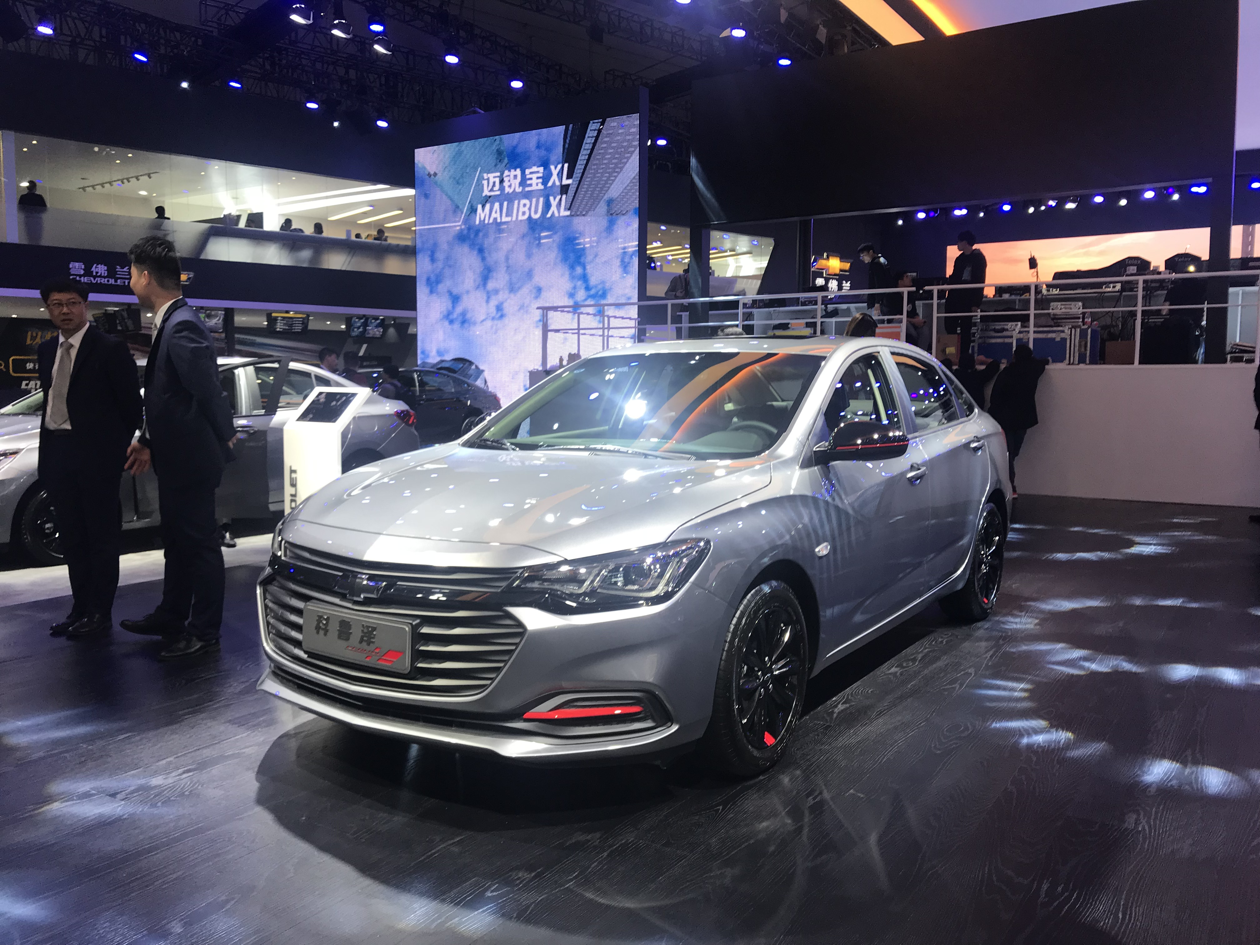 Chevrolet Monza front